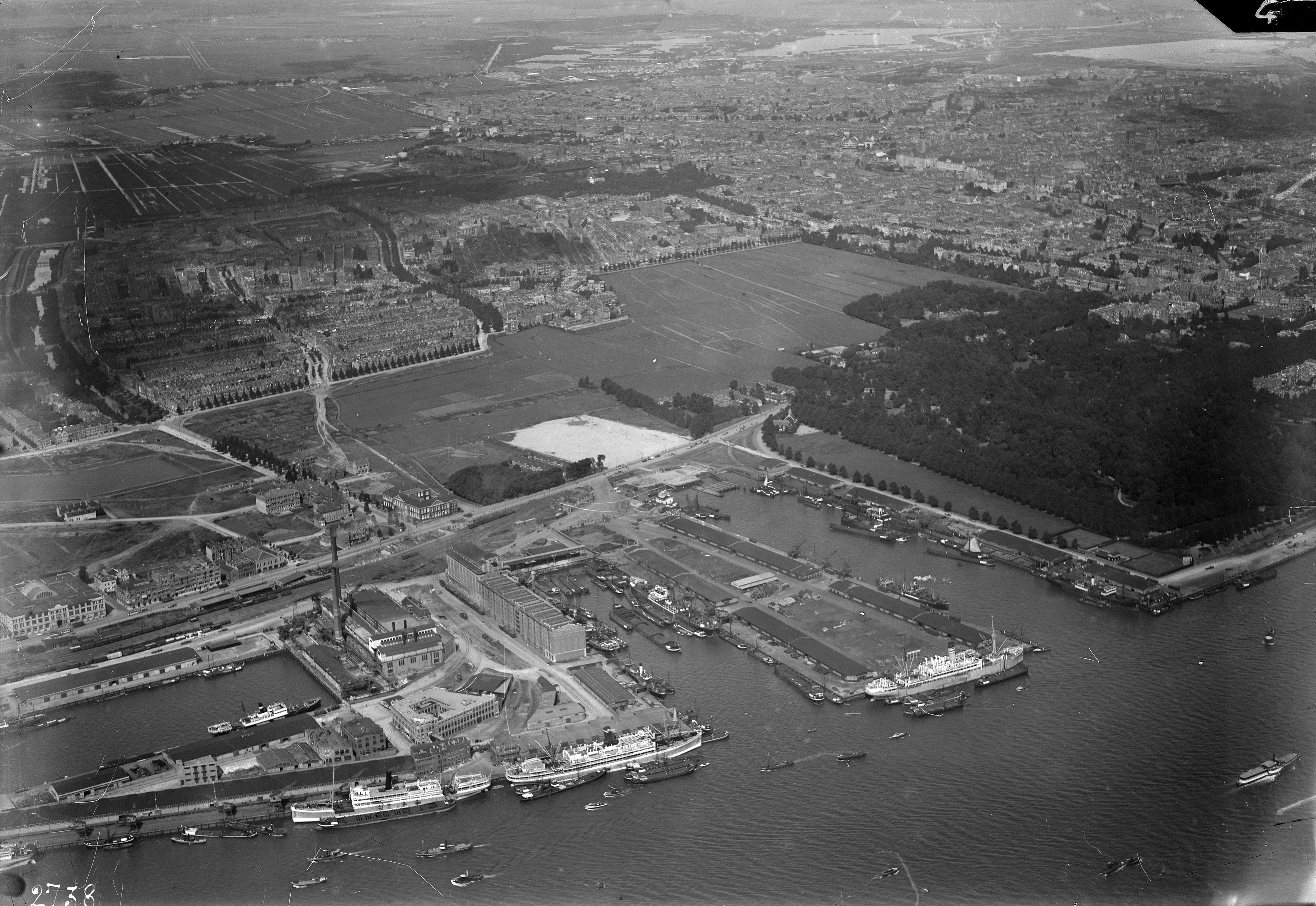 Aerial photograph of Rotterdam, The Netherlands. Sint Jobshaven.